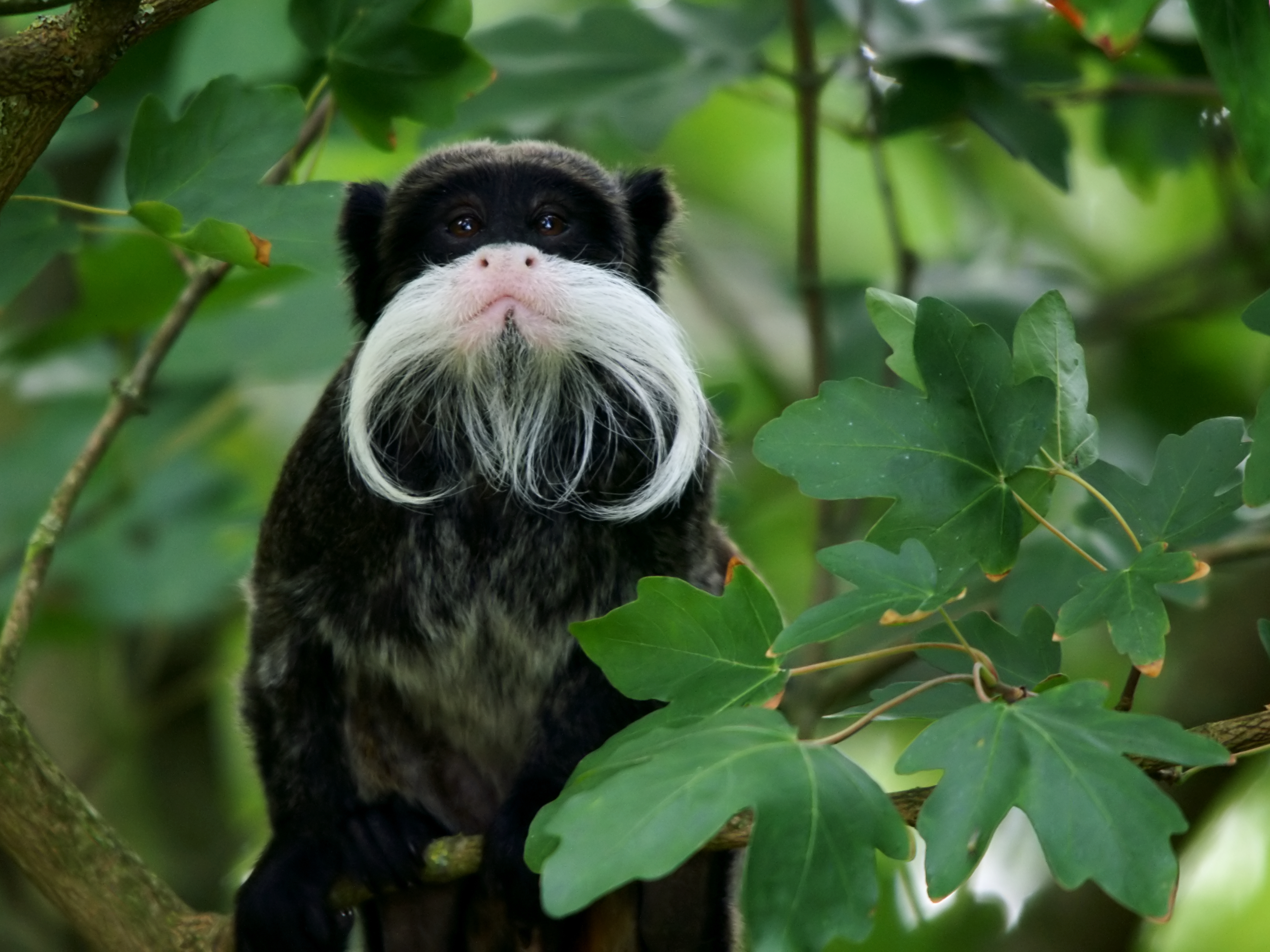 Emperor Tamarin at Chester Zoo near Chester, UK.